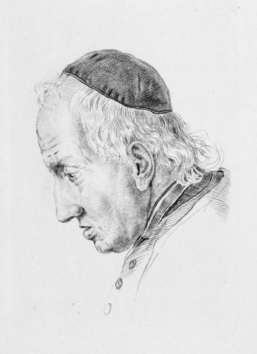 Portrait of a Priest etching and drypoint 10 x 6.6 cm (plate) 1820s (1842 edition?)